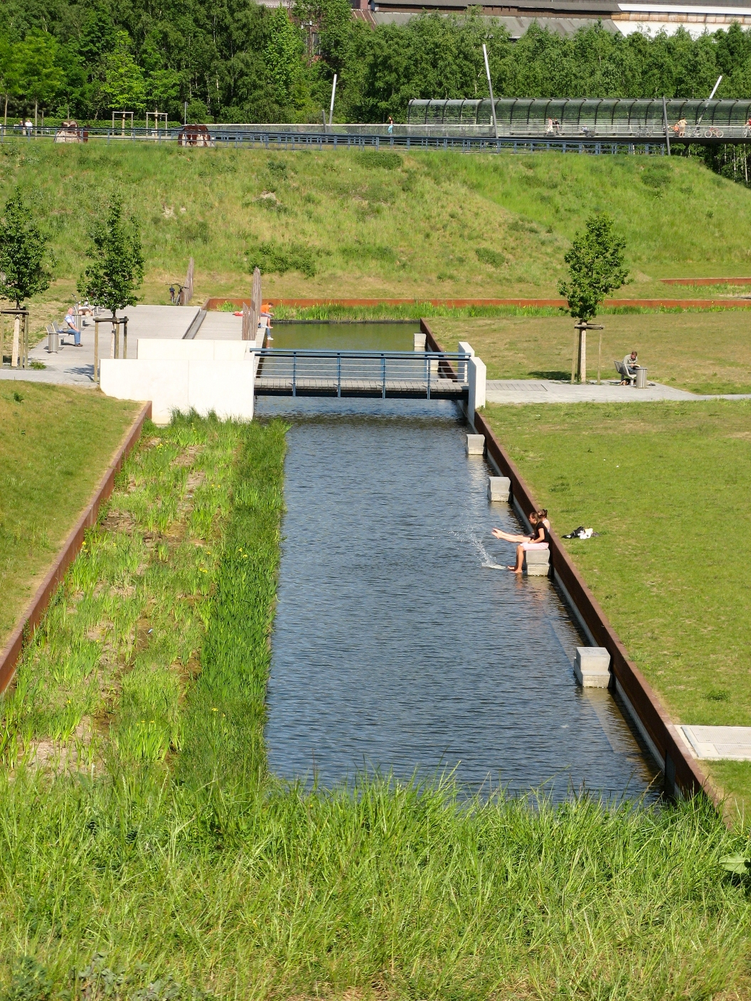 Bochum Westpark Relaxen am ehemaligen Kühlwasser-Sammelbecken. Der Westpark auf dem Gelände des früheren Stahlwerks 'Bochum Verein' bietet nicht nur neue Möglichkeiten der Stadtentwicklung, sondern ist auch unkonventionelles Freizeitgelände in unmittelbarer Nachbarschaft der City. Relax at the former cooling-water pond. The area of 'Westpark', realised on the ground of the former steel mill 'Bochumer Verein' offers new oportunities of urban development at one hand and on the other hand space to relax free spirited in direct neighborhood of the city.